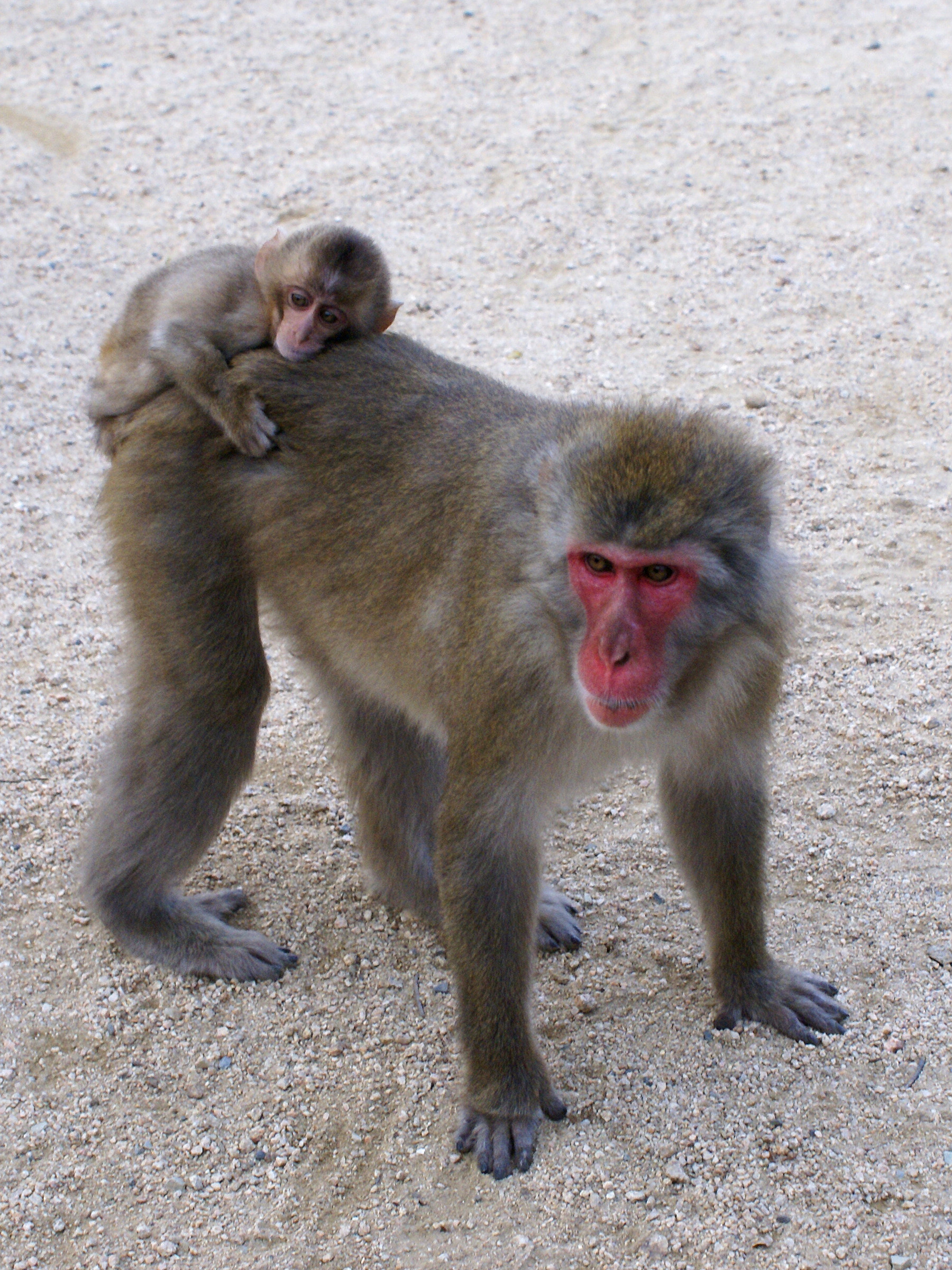 At Choshikei in Shodoshima Island, Kagawa Prefecture, Japan